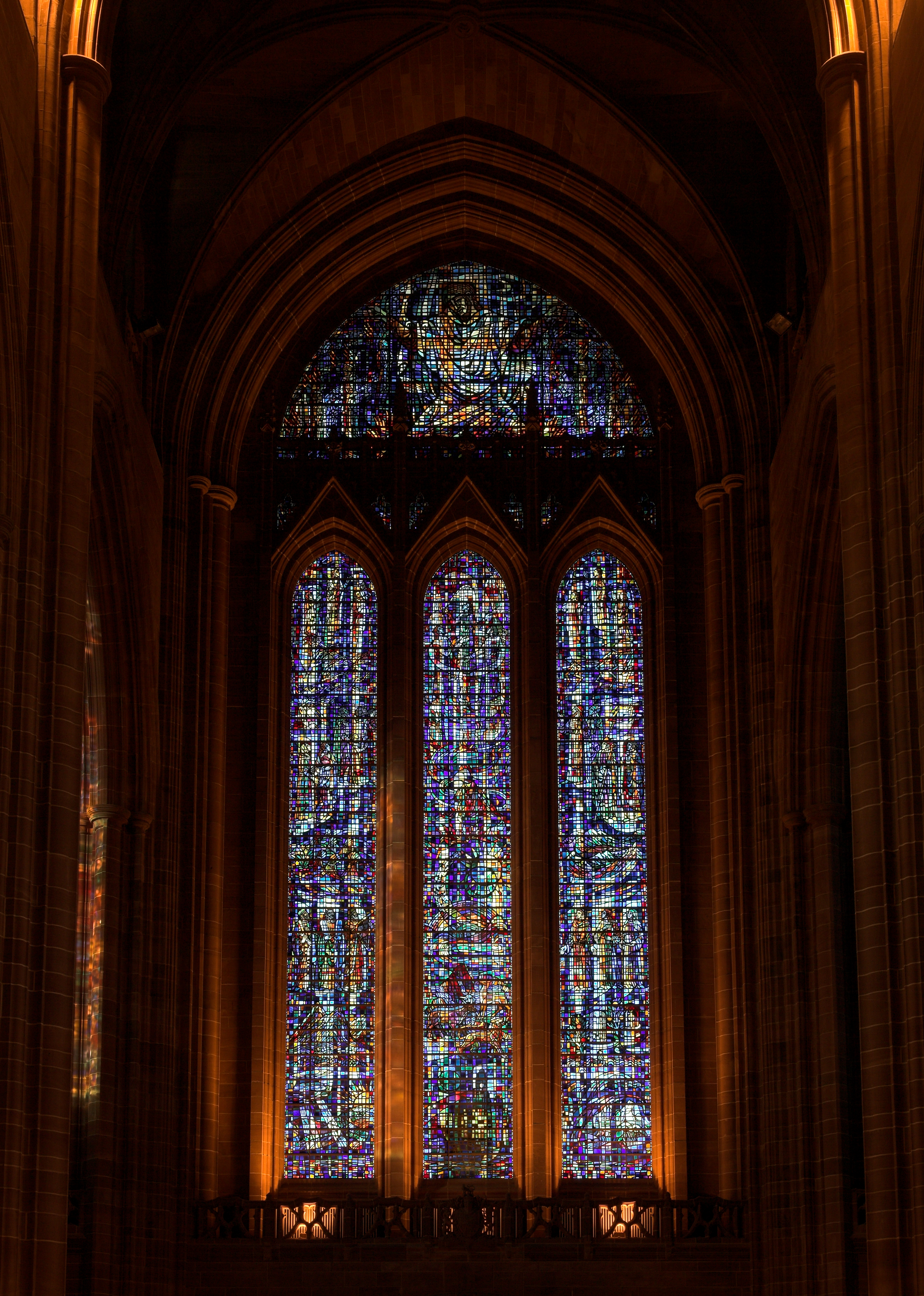 Liverpool Anglican Cathedral stained glass window. Canon EOS 20D with 17-85 IS USM lens @ 47mm, f/13 1/3 sec, ISO 200.